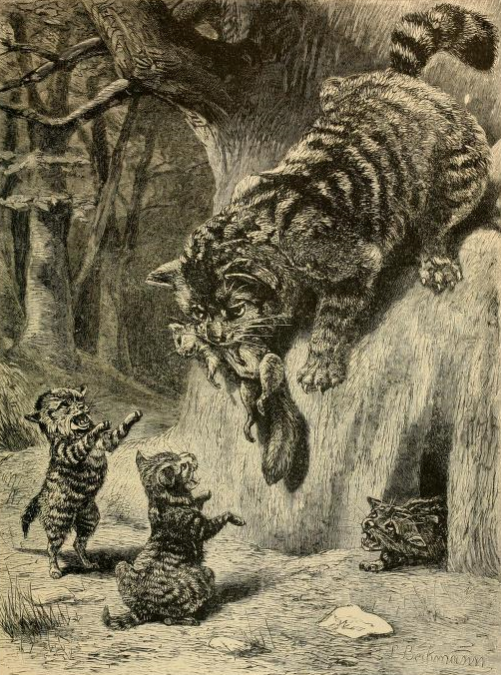 European wildcat with kittens